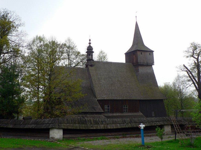 16th century wooden church of St. Andrew in Osiek, Poland